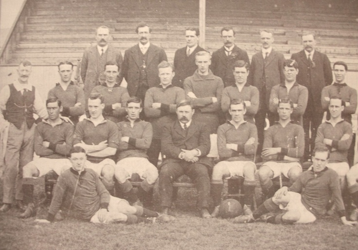 The inaugural Barry team photo, taken in 1913.